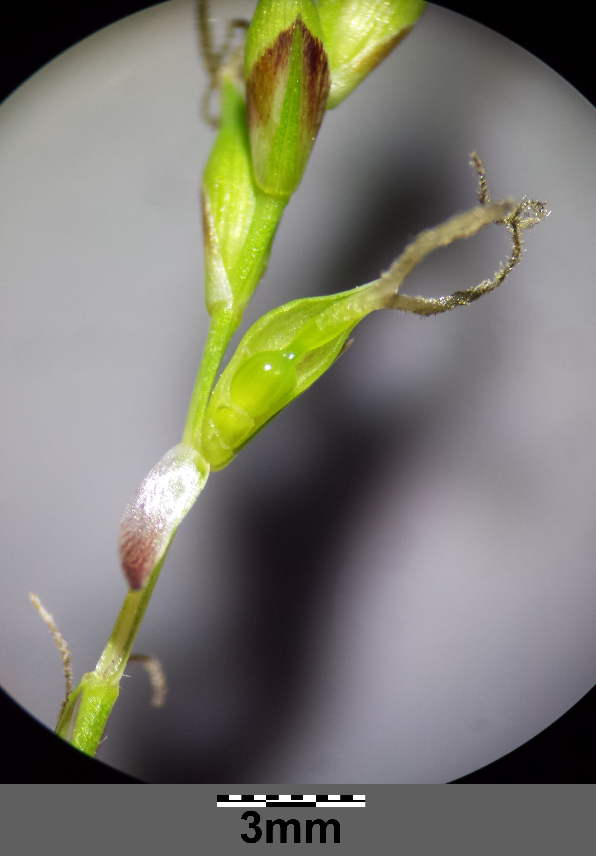 Female flower, opened Taxonym: Carex pilosa ss Fischer et al. EfÖLS 2008 ISBN 978-3-85474-187-9 Location: Rohrwald, district Korneuburg, Lower Austria - ca. 250 m a.s.l. Habitat: dedicious forest